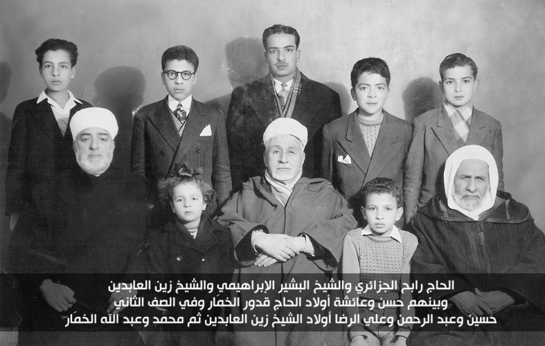 Mohamed_El_Ibrahimi_and_Zine_El_Abidine_Ben_Hasine_Ettunsi